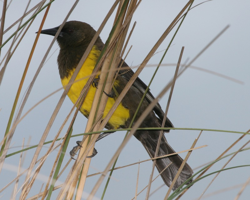 Brown-and-yellow Marshbird (Pseudoleistes virescens) at Entre Rios, Argentina. Alt. Names: Brown and yellow Marshbird, Brown-and-yellow Marshbird, Brown-yellow Marshbird, Yellow-breasted Marshbird Spanish (Argentine): Pecho amarillo chico, Pecho amarillo común Portuguese (Brazil): Dragão, dragão-do-banhado